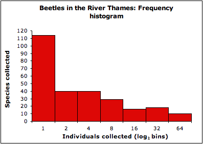 Relative species abundance of beetles sampled from the river Thames plotted as a frequency histogram (log2 binned) and showing a strong left-skew. (derived from data presented in Magurran (2004) and collected by Williams (1964))